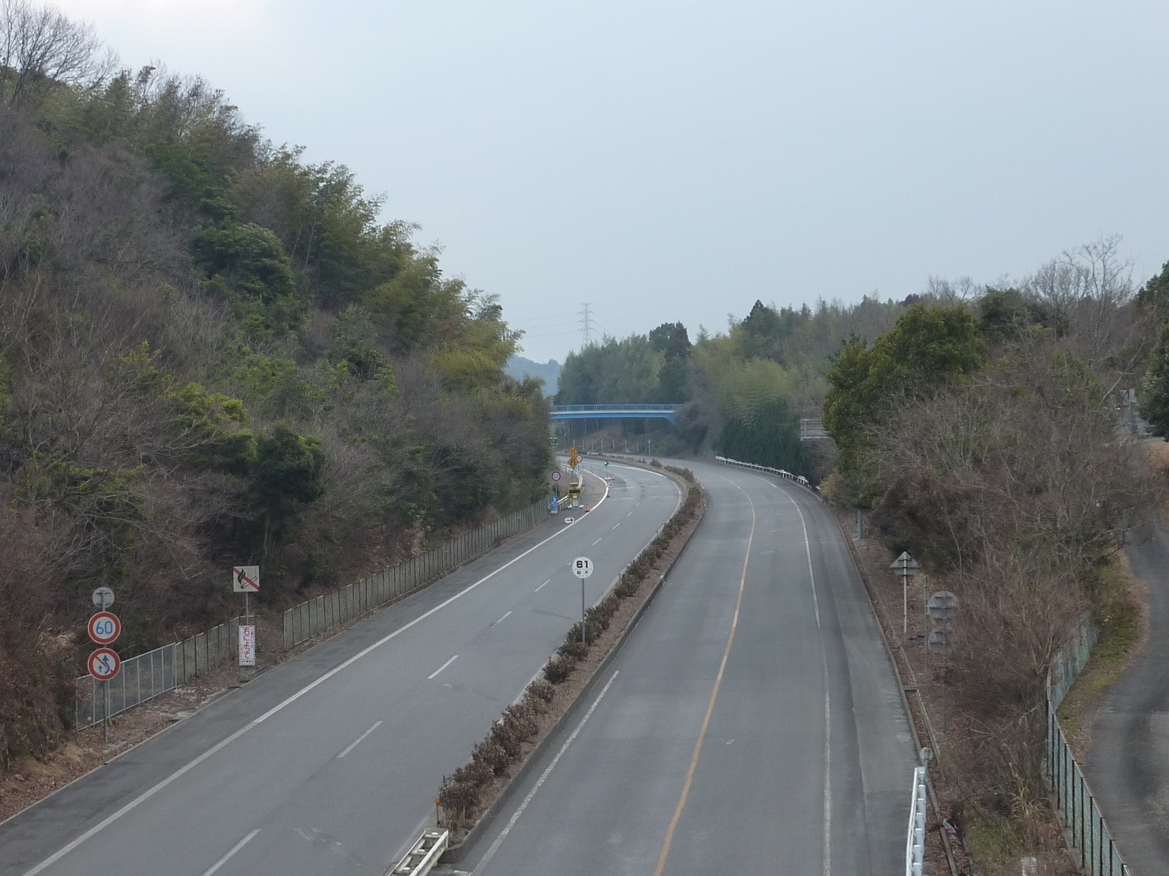 Ube Industries; Ube - Mine Expressway (Funaki, Ube City, Yamaguchi Prefecture, Japan)